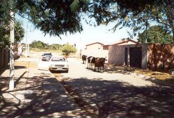 This is my own photo taken when I lived in Formosa (Vogensen)